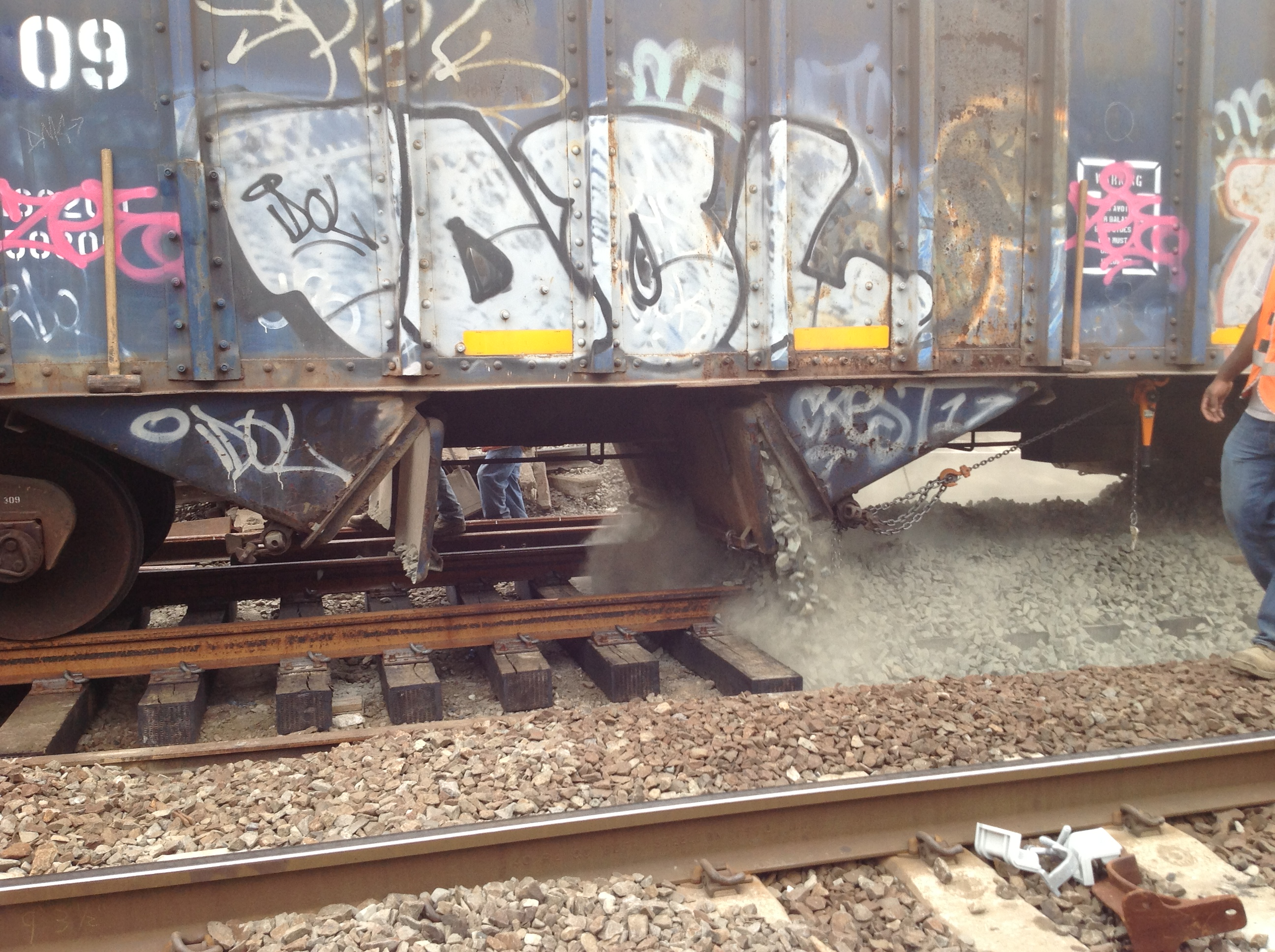 New ballast stone is leveled on damaged Metro-North Railroad track in the Bronx as repairs to a freight derailment continue, Sunday, July 28, 2013.